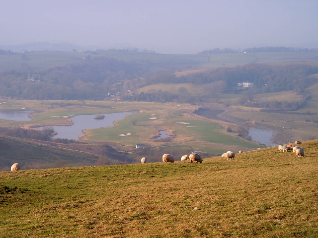 Meander on the tidal Usk. This view looks across the Usk valley towards the castle mill at Llanhennock and was taken from Kemeys Graig the large ridge to the east of the A449.